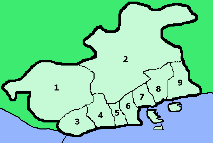 edit from